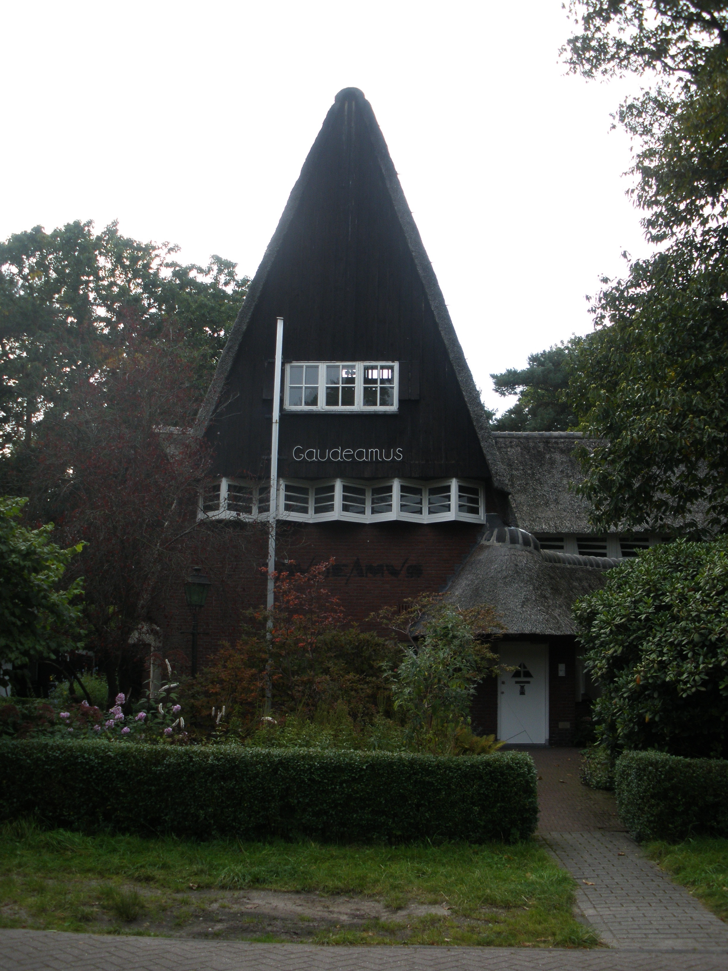 The Walter Maas Huis in Bilthoven, the Netherlands. The Dutch composer Julius Röntgen lived here from 1925 untill his death in 1932. It was named Gaudeamus untill 1992.